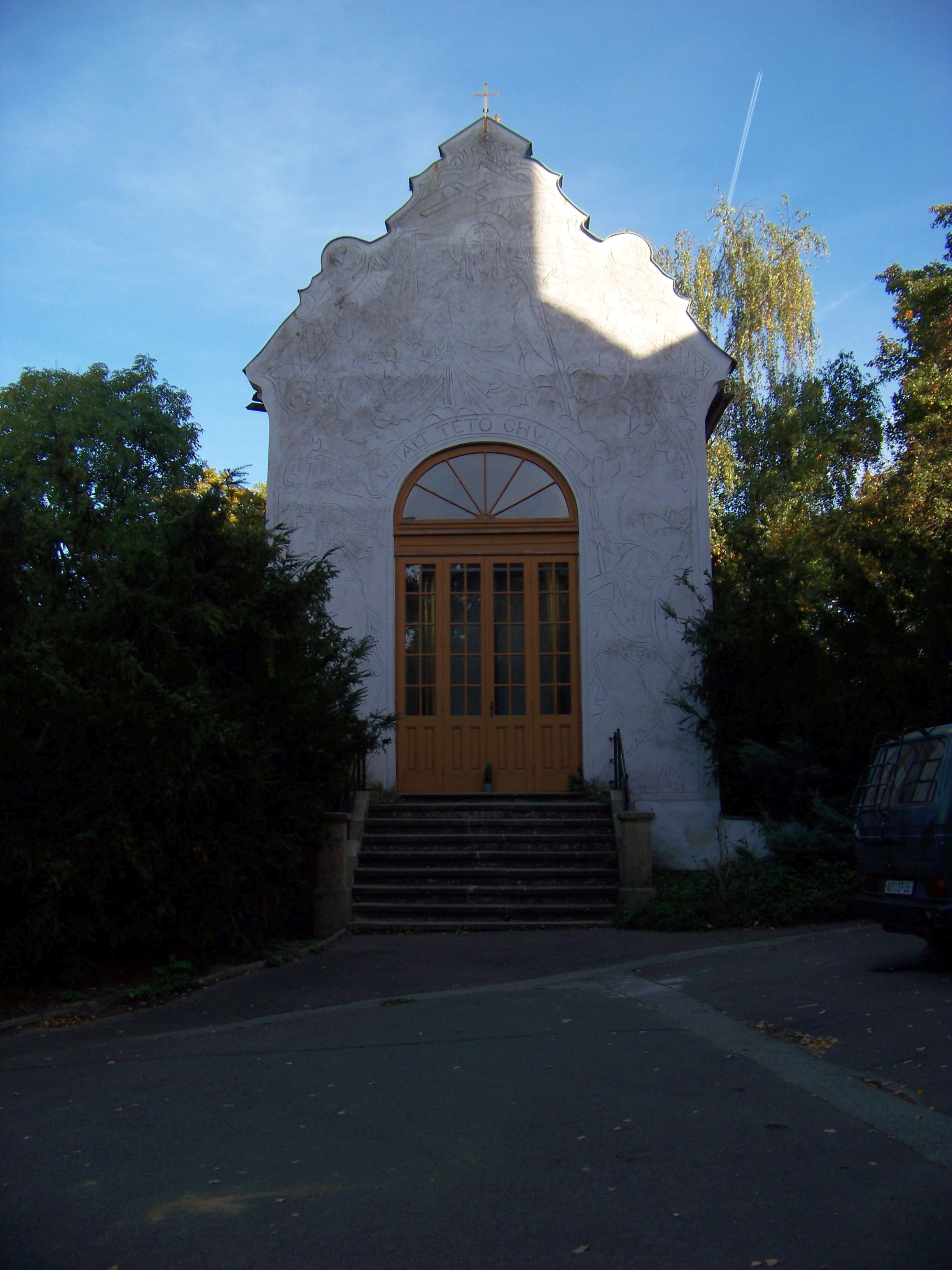 Prague-Malá Strana, the Czech Republic. Petřín hill, Petřín Park, Calvary Chapel.